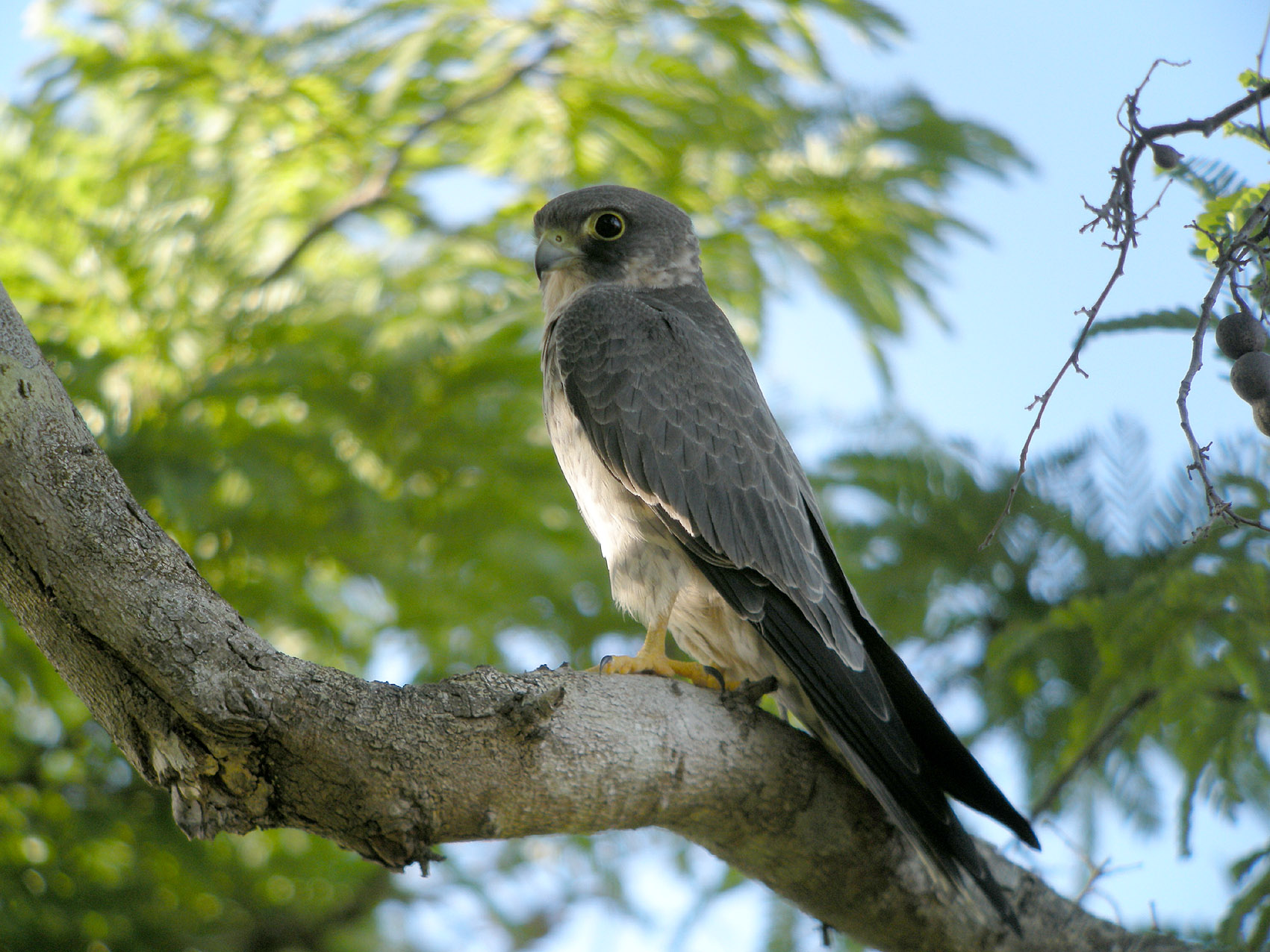 Sooty Falcon, Allée des Baobabs near Morondava, Madagascar A sustantial proportion of the global population of this falcon species winters in Madagascar. In January 2010, on my way to and from Kirindy, I spotted several dozens of these birds foraging around the huge Adansonia trees in the famous "Allée des Baobabs". Swarowski 80 HD 30 X, Coolpix P5100 (Adapter DCB)